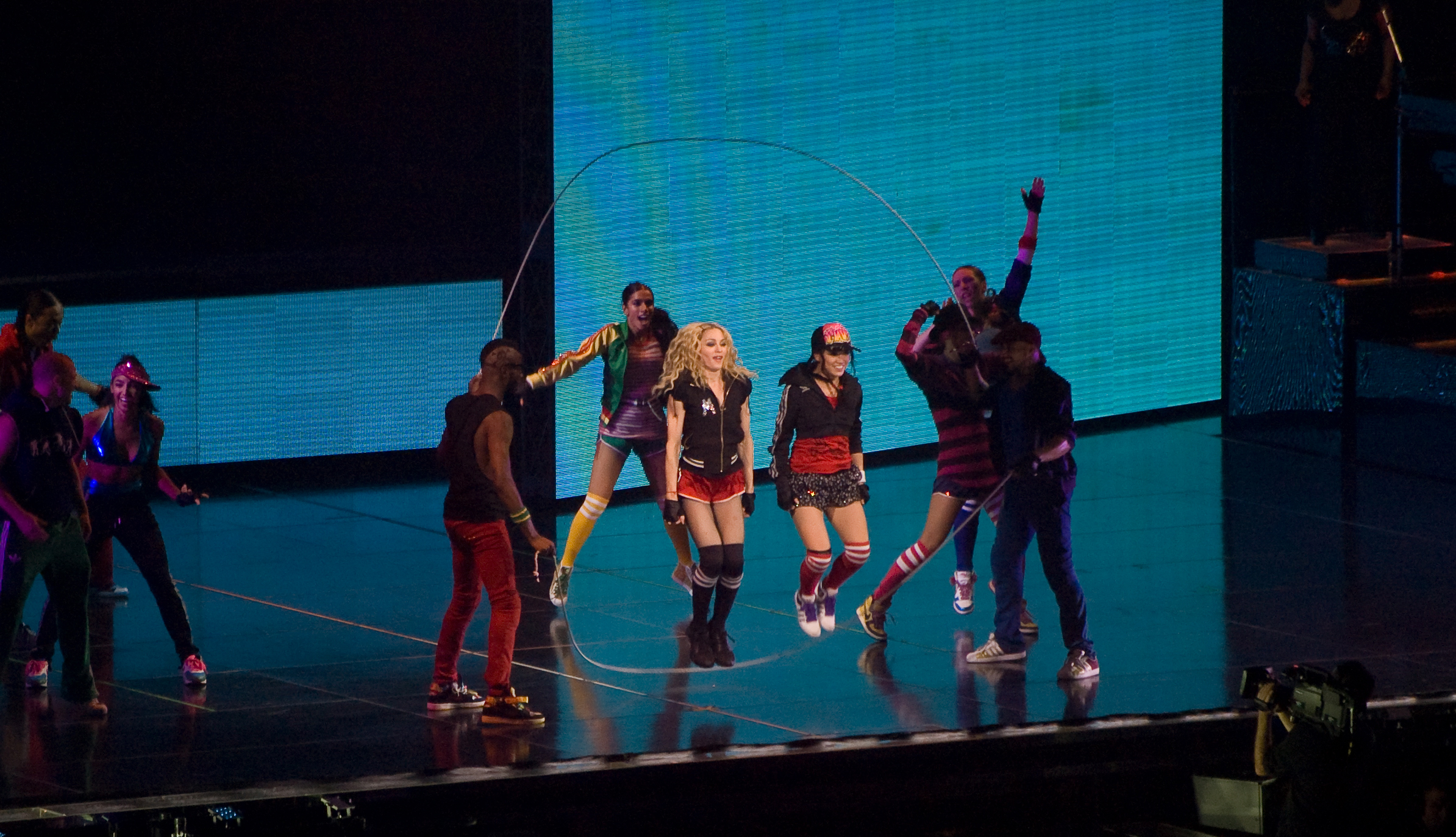 Madonna Sticky & Sweet Tour 2008-10